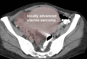 CT scan Imaging for determination of local advanced uterine sarcoma